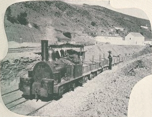 Train going to Pomarão, on the São Domingos mine railway, in Mértola, in Portugal. This image was published on the Ilustração Portuguesa magazine No. 85, of the 7th October 1907, and scanned by the Hemeroteca Municipal de Lisboa.